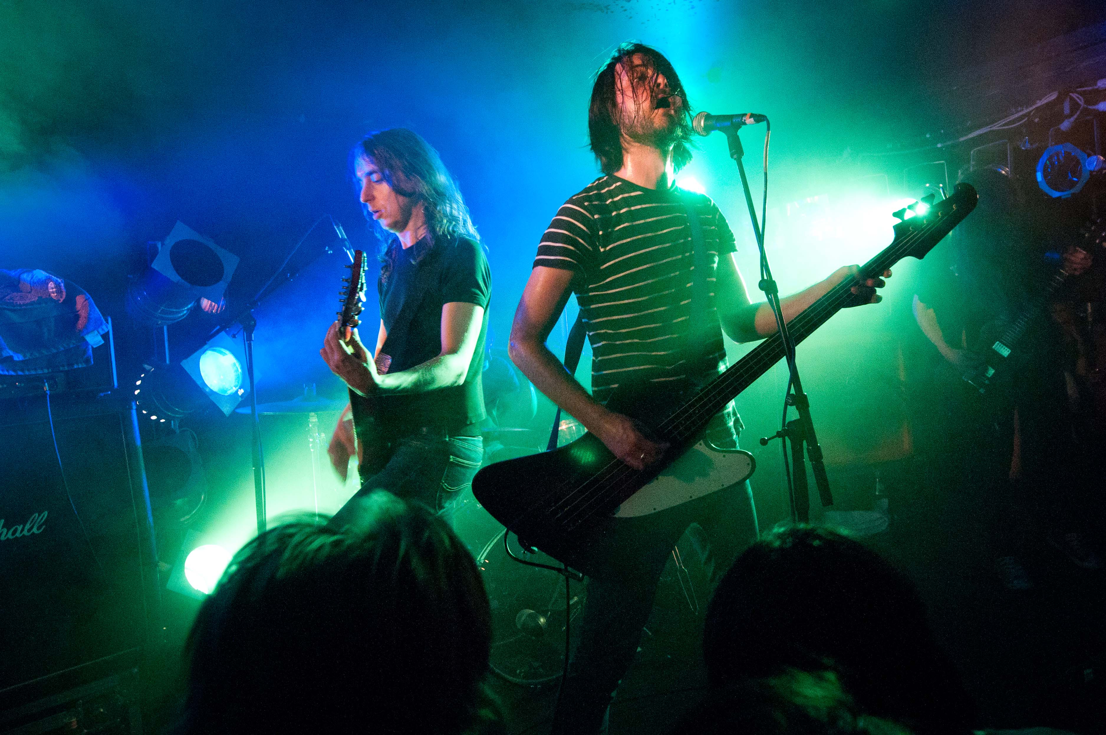 Anais photography Auckland concert TheDatsuns